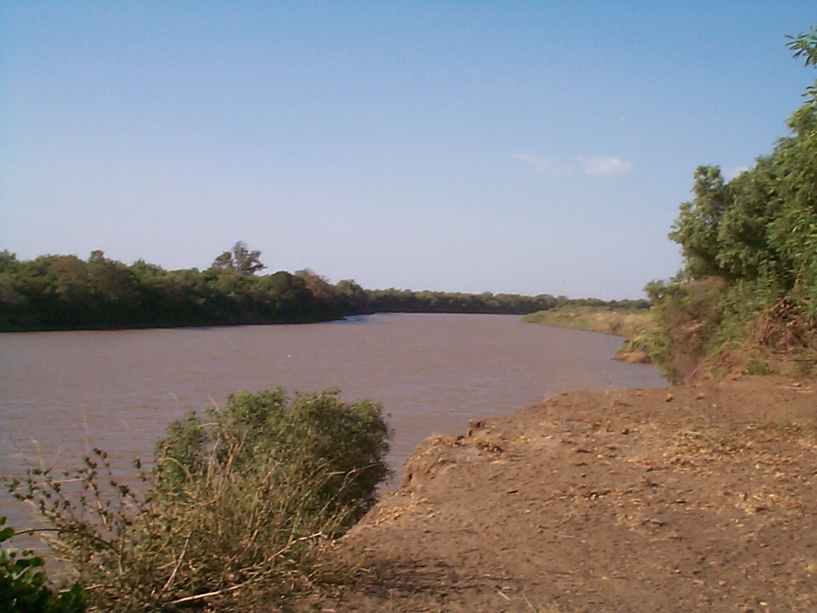 Omo River looking upstream just north of Omorati.